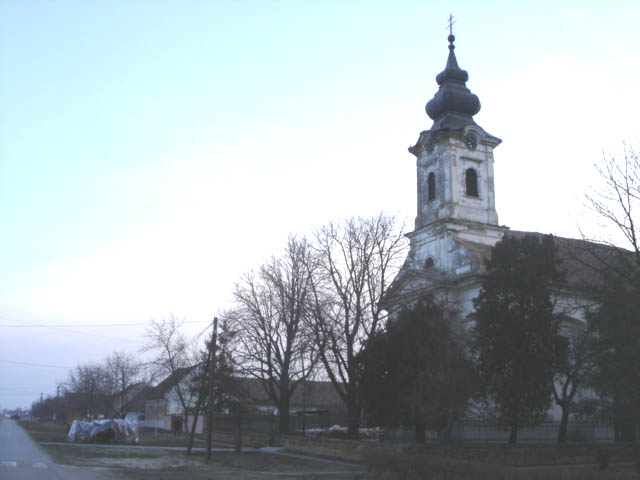 The Orthodox Church in Taraš/ Vojvodina /Serbia